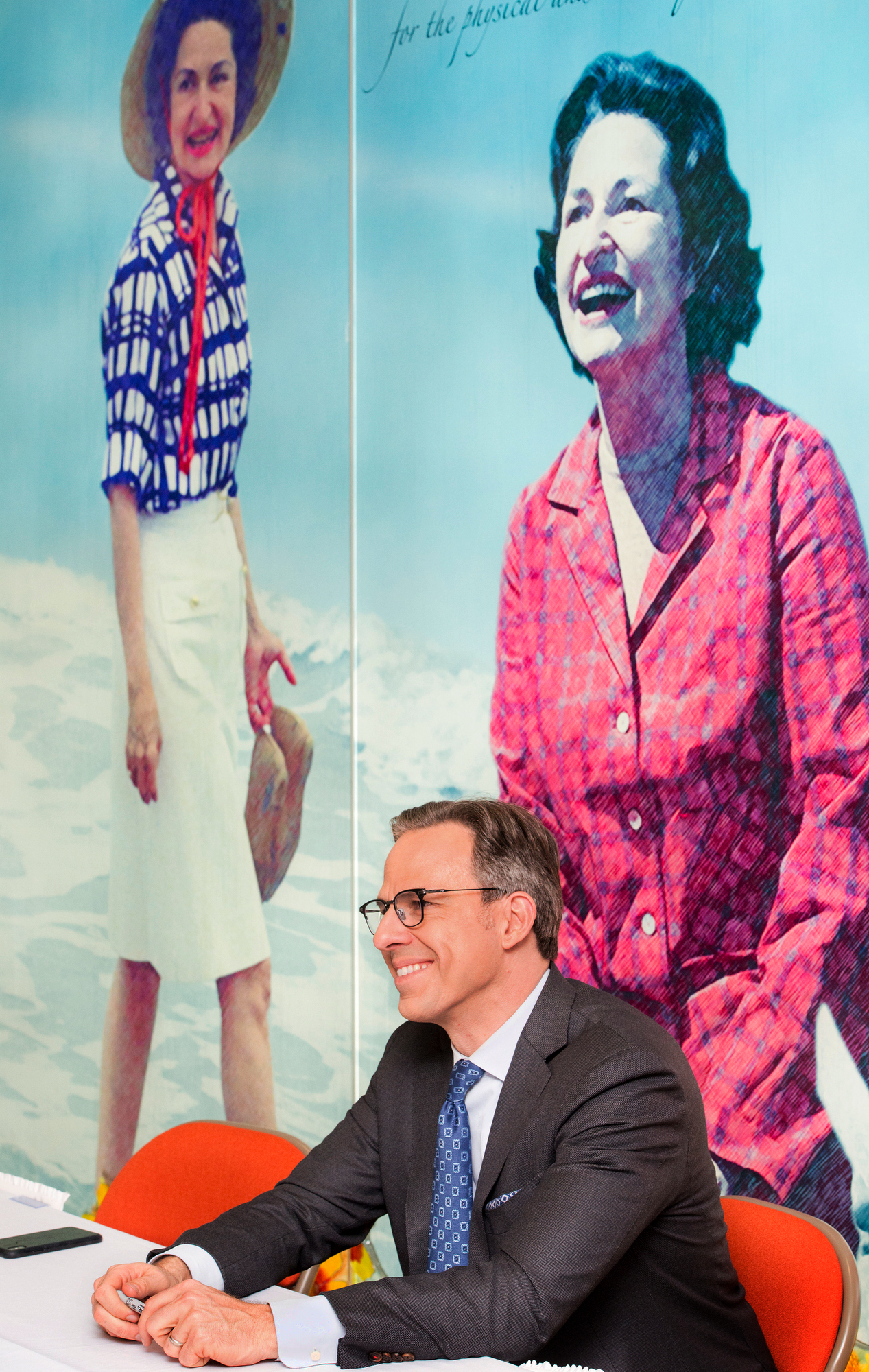 On Wednesday, May 30, 2018, the LBJ Presidential Library hosted a conversation with CNN anchor and chief Washington correspondent Jake Tapper about his debut political thriller, The Hellfire Club.